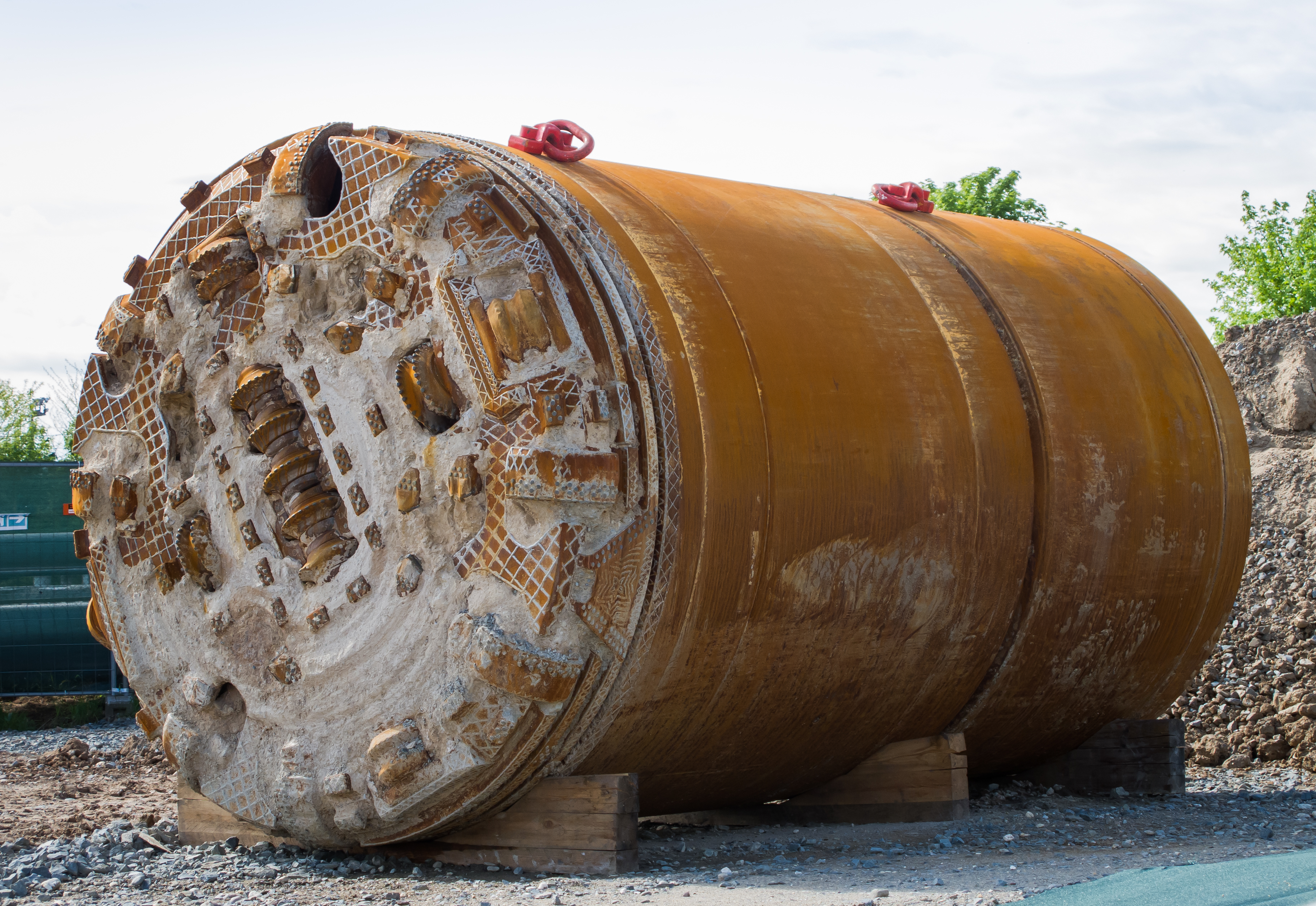 Cologne, Germany: The rock drilling machine, that was also used for drilling the tunnel under the Rhine for the CONNECT pipeline